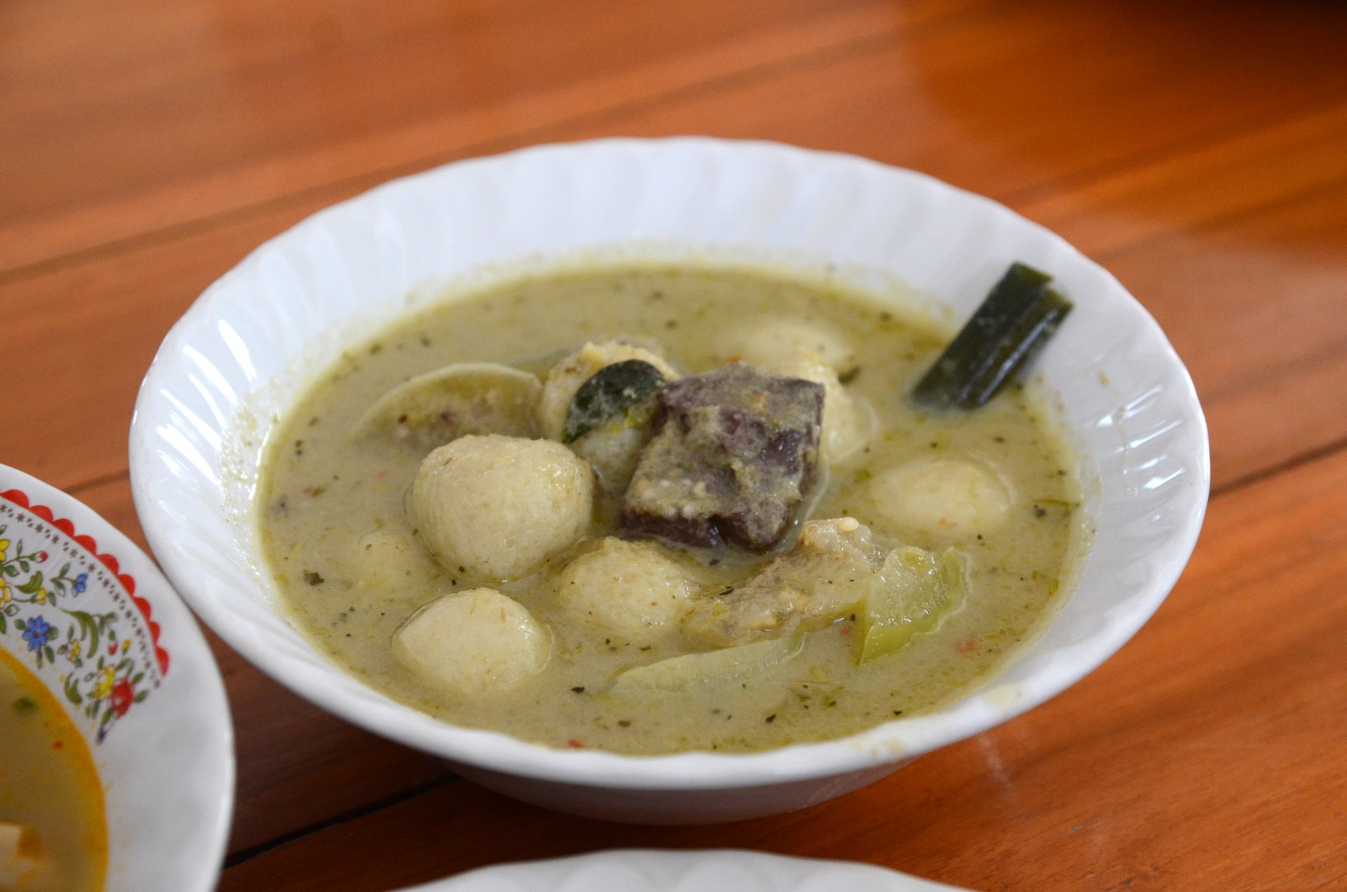 Kaeng kiao wan luk chin pla (Thai script: แกงเขียวหวานลูกชิ้นปลา): Green curry with fish balls, blood curd, and Thai eggplant.